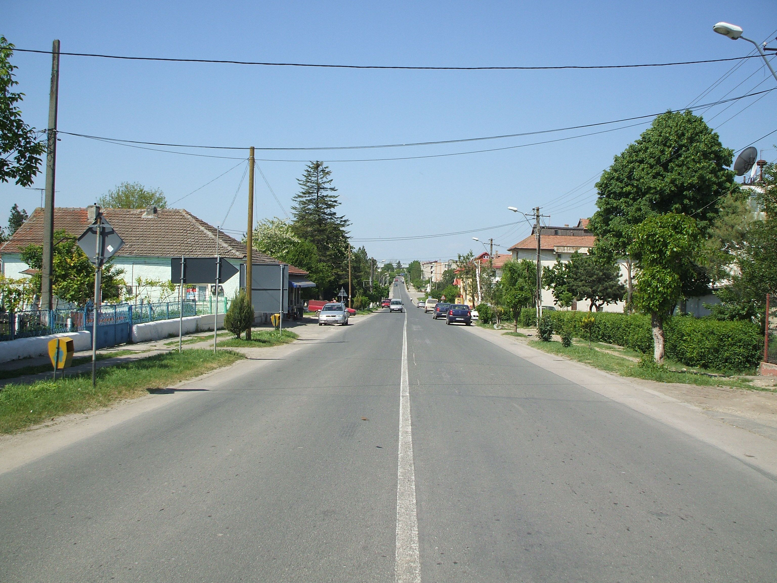 Negru Vodă town centre.